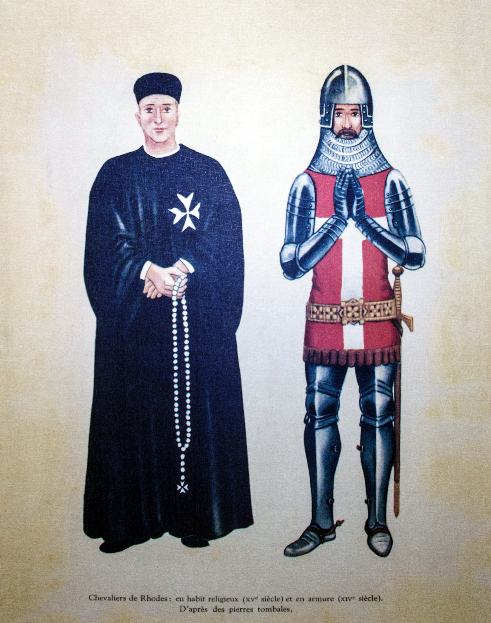 Drawing of people belonging to the Order of Saint John of Jerusalem from the end of the 18th century